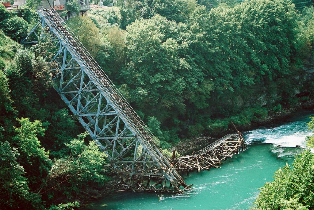 Bridge on Neretva river, damaged in WW2.